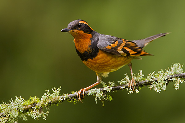 Varied Thrush - Vancouver Island